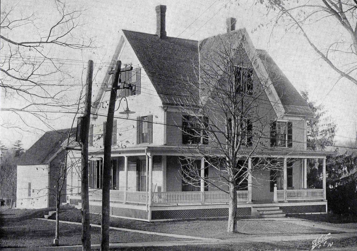 A photo of the physical plant of Delta Tau Delta, a fraternity at Dartmouth College. See Dartmouth College Greek organizations.